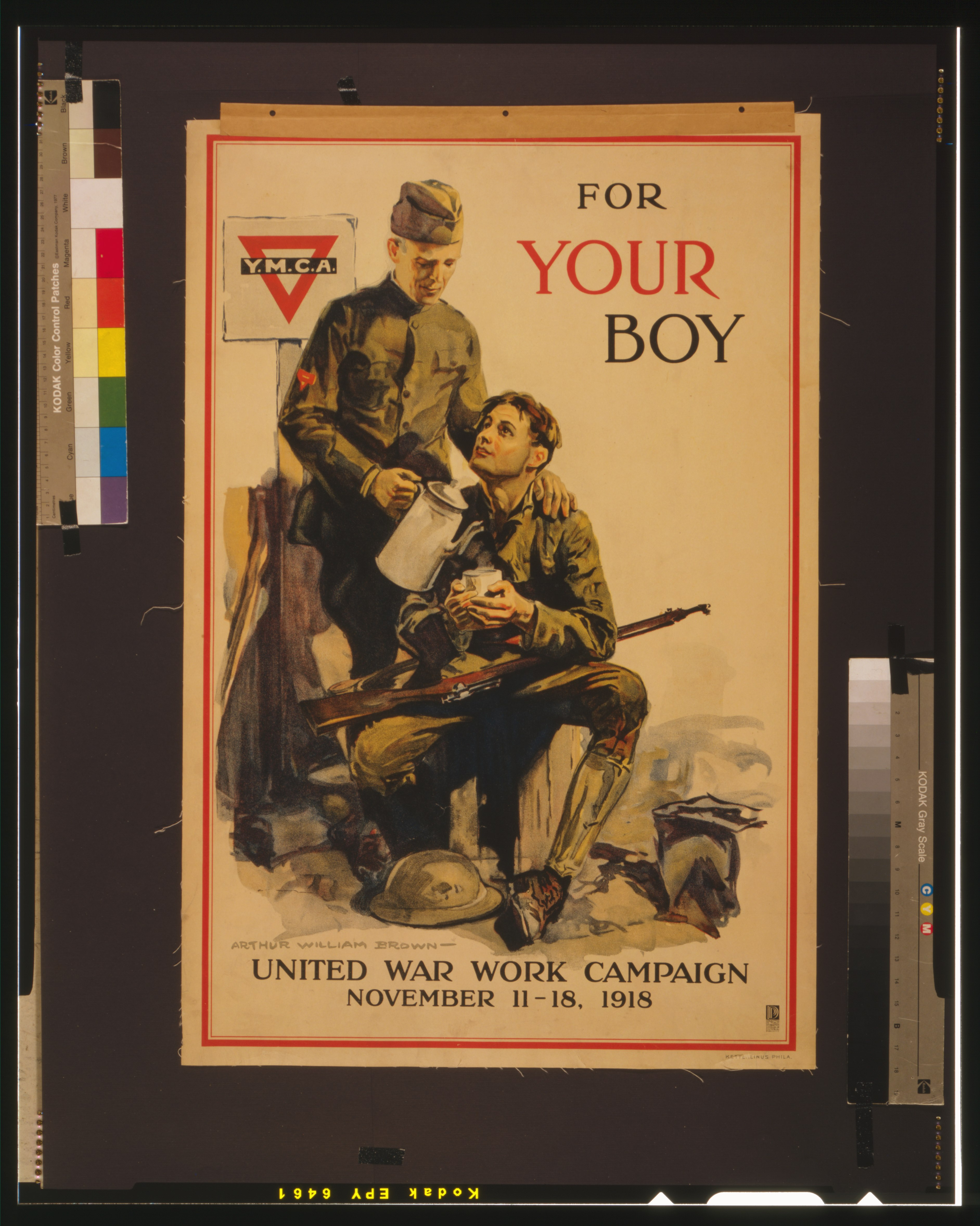 Title: For your boy Abstract: Y.M.C.A. poster for the United War Work Campaign showing a man in military uniform pouring a cup of tea for a young soldier seated with a rifle across his lap and helmet at his feet; signpost with Y.M.C.A. logo in upper right corner. Physical description: 1 print (poster) : lithograph, color. Notes: Issued(?) by: Committee on Public Information, Division of Pictorial Publicity.; Arthur William Brown.